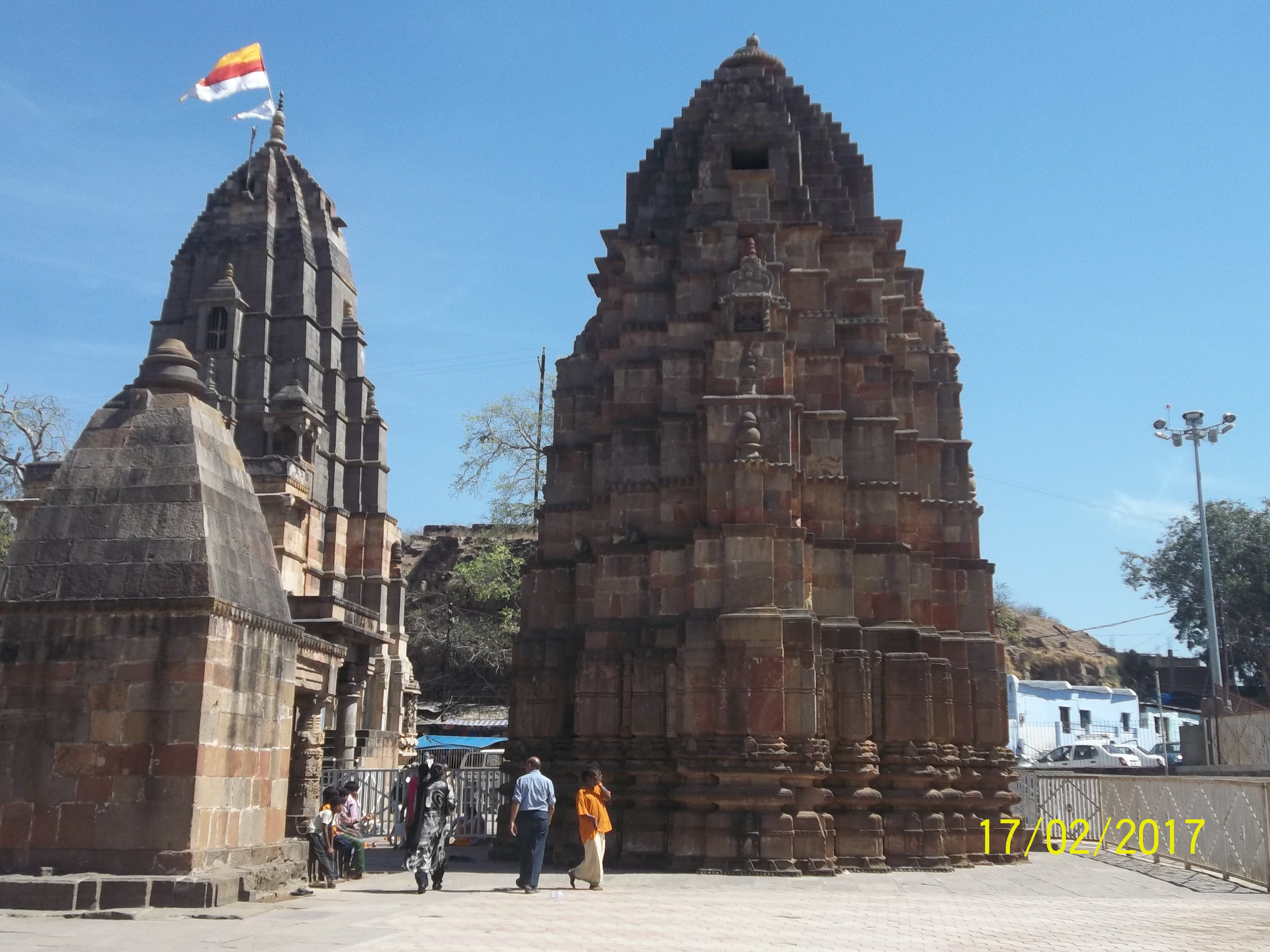 Outer view of Amaleshwara temple at Omkareshwara, M.P.